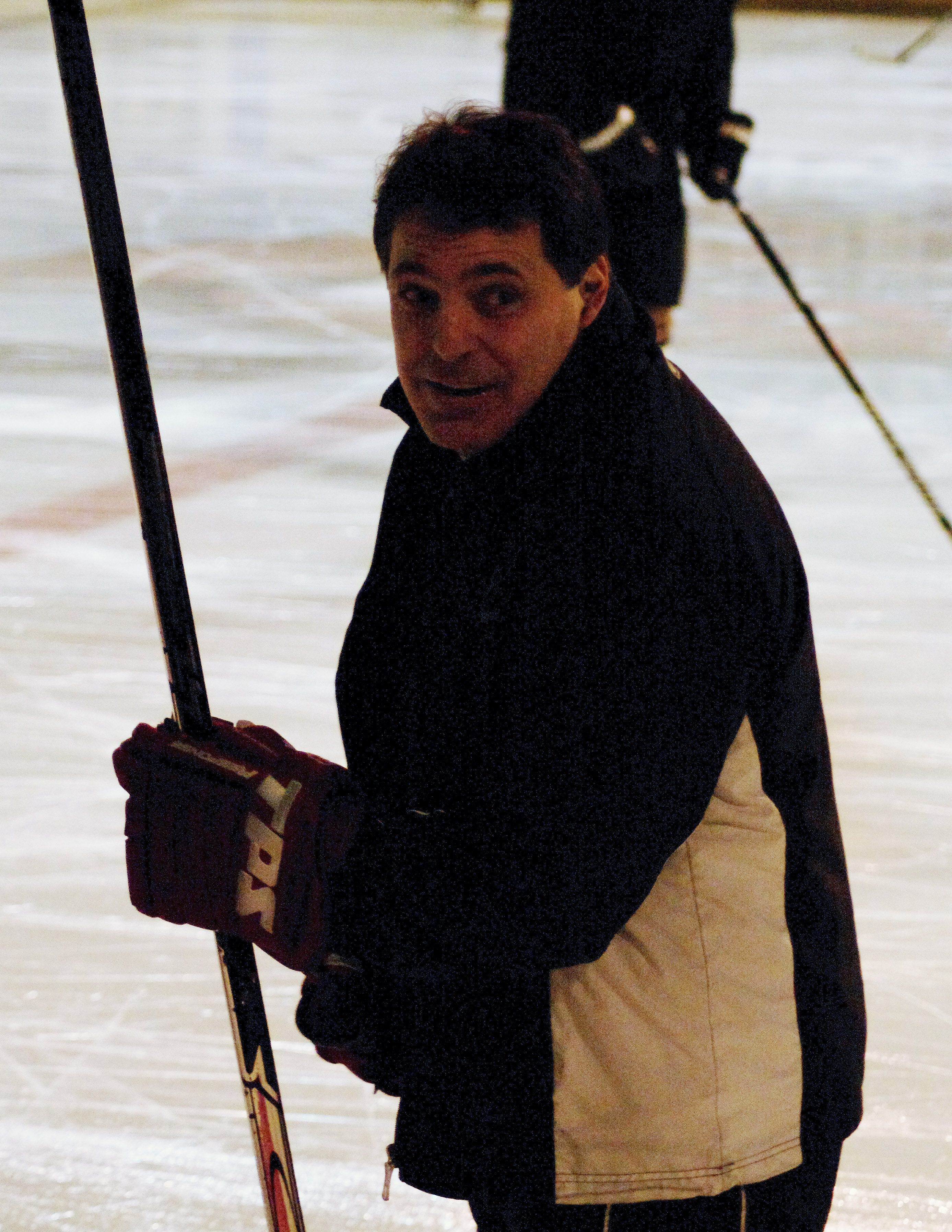 Guy Dupuis, former ice hockey player, actual coach of U18 in Bordeaux